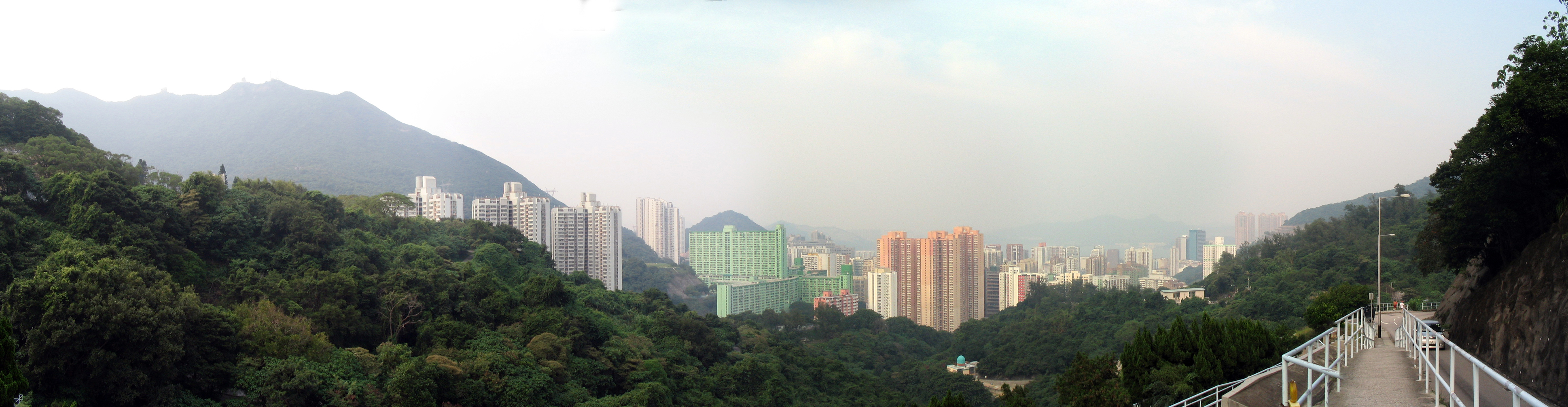 Panoramic photo of Chai Wan, combined from 1505602264, 1504736165, 1505599318, 1504738253 and 1504739277